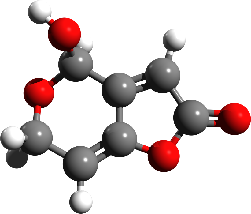 Patulin structure